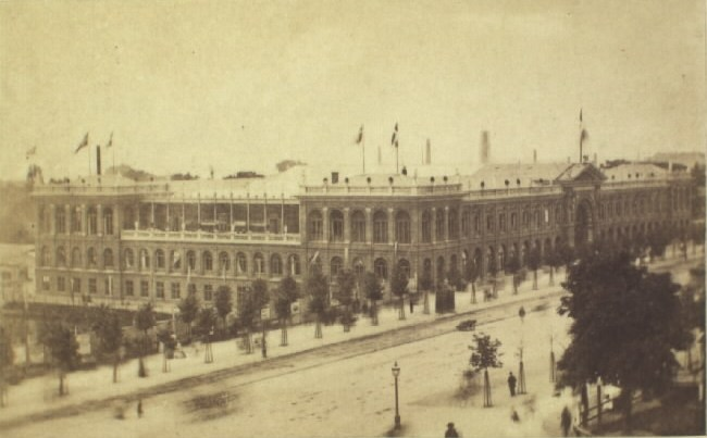 Industribygningen (The Building of Industry), headquarters of the Industrial Associal of Copenhagen. Erected 1872 in conjunction with the Nordic Exhibition, demolished 1976-77 and replaced by Industriens Hus.